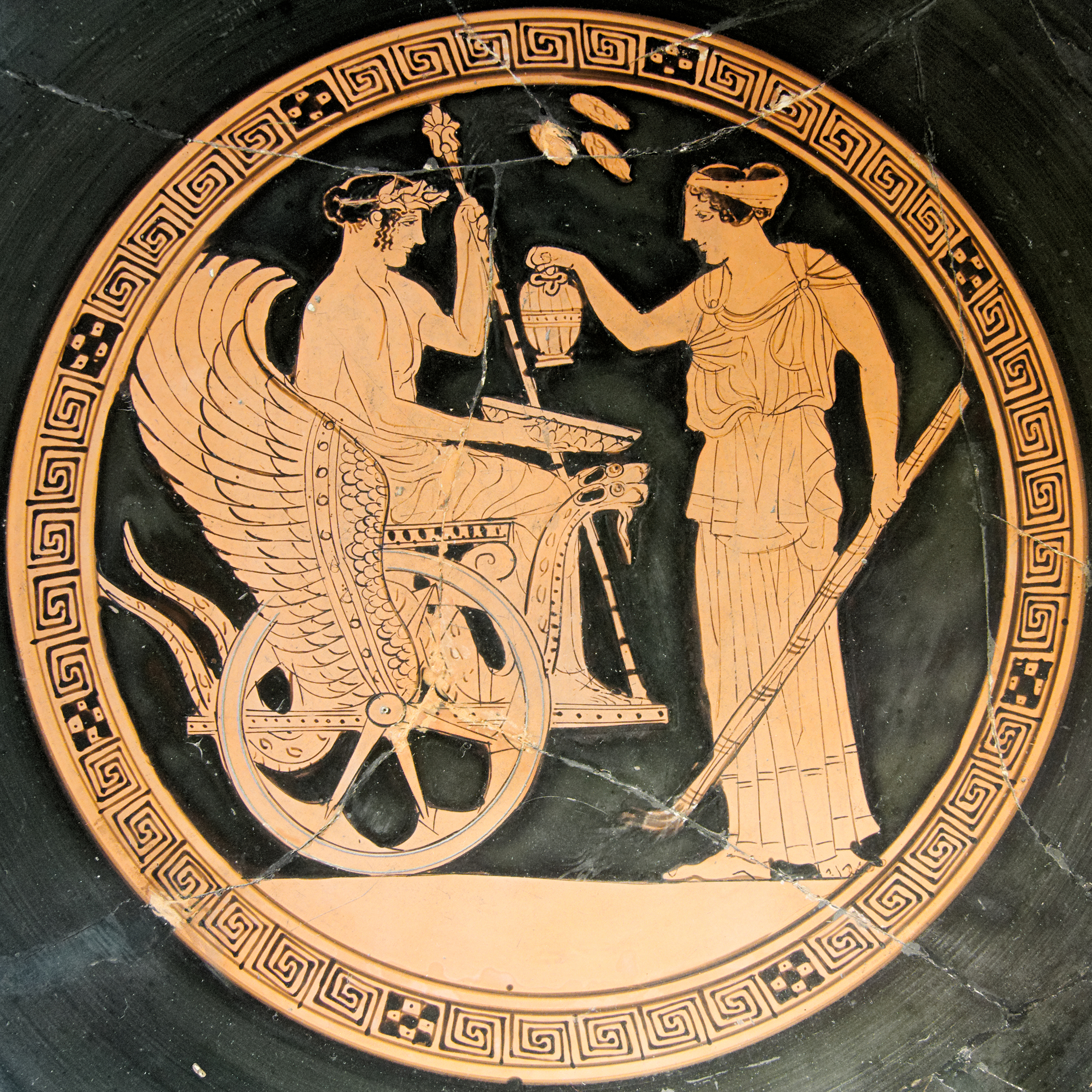 Triptolemus and Korē, tondo of a red-figure Attic cup, ca. 470 BC–460 BC, found in Vulci.